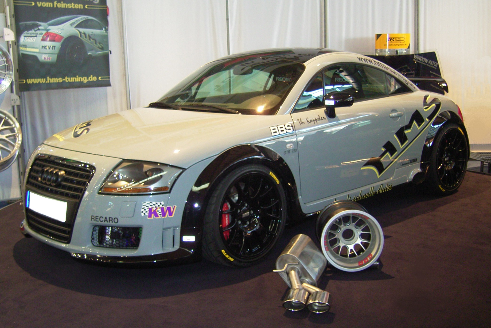 A tuned Audi TT at The Tuning World Bodensee